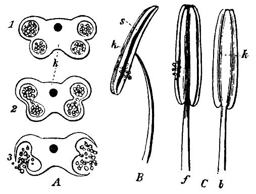 Stamen of a flower